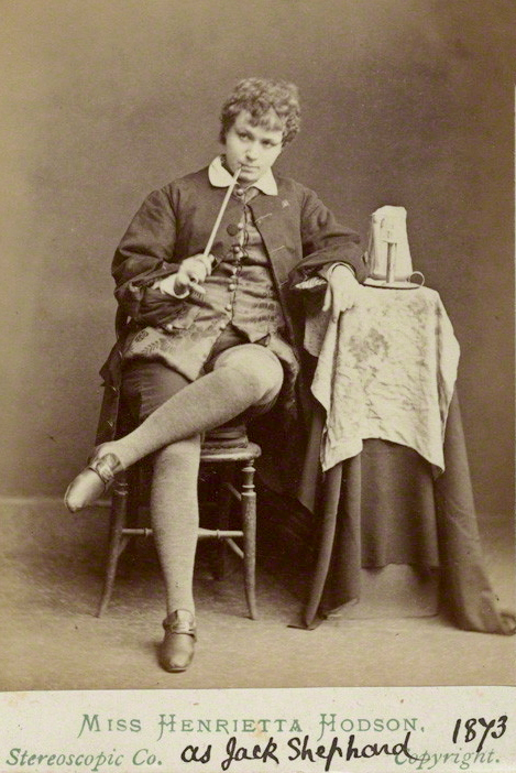 Henrietta Hodson (Mrs Henry Labouchere) as Dick Wastrell in Old London, an 1873 English adaptation of Les Chevaliers du Brouillard, which was a French dramatisation of Jack Sheppard. (see this).